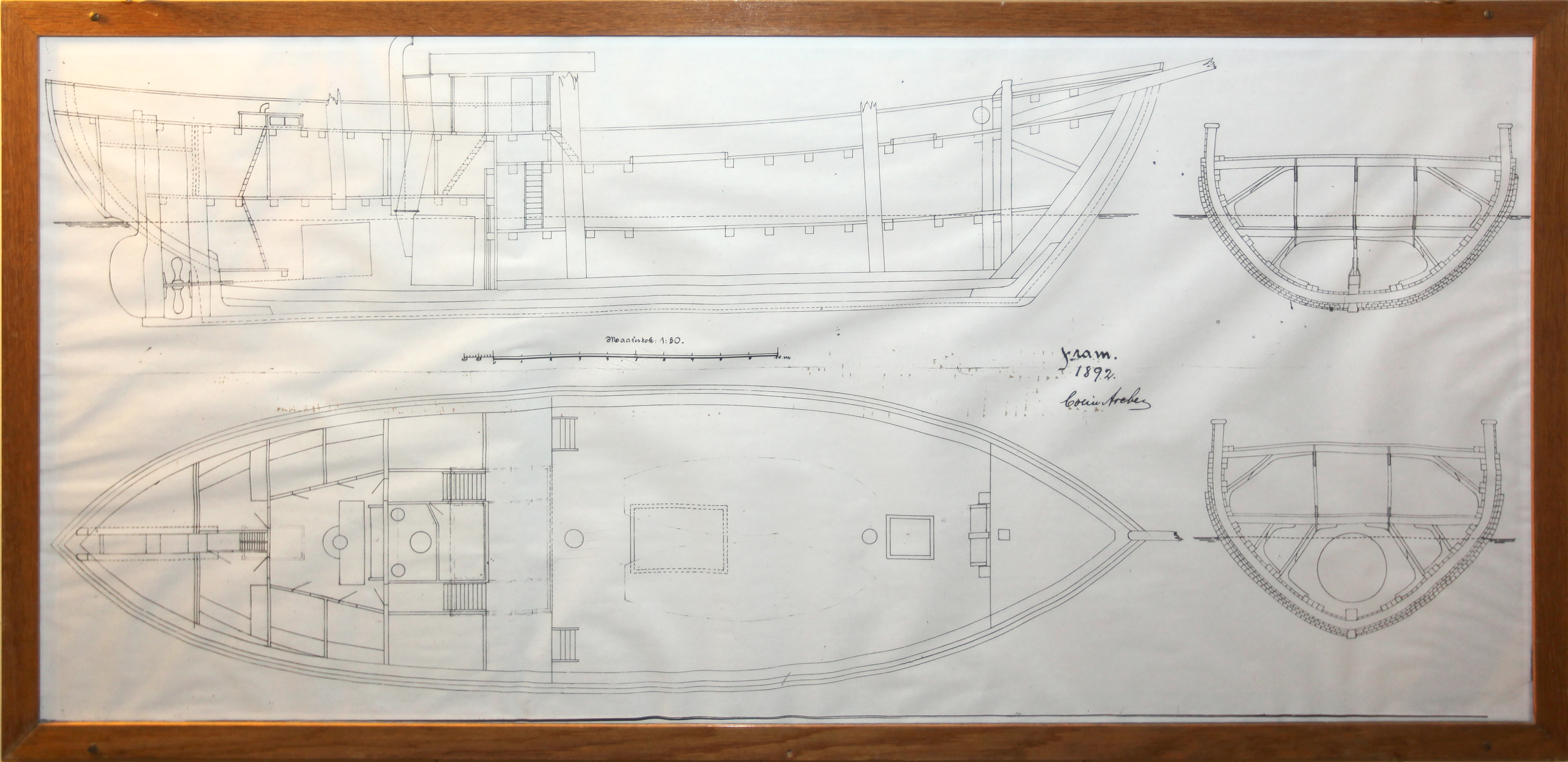 Engineering drawing Fram. Fram Museum, Oslo, Norway.